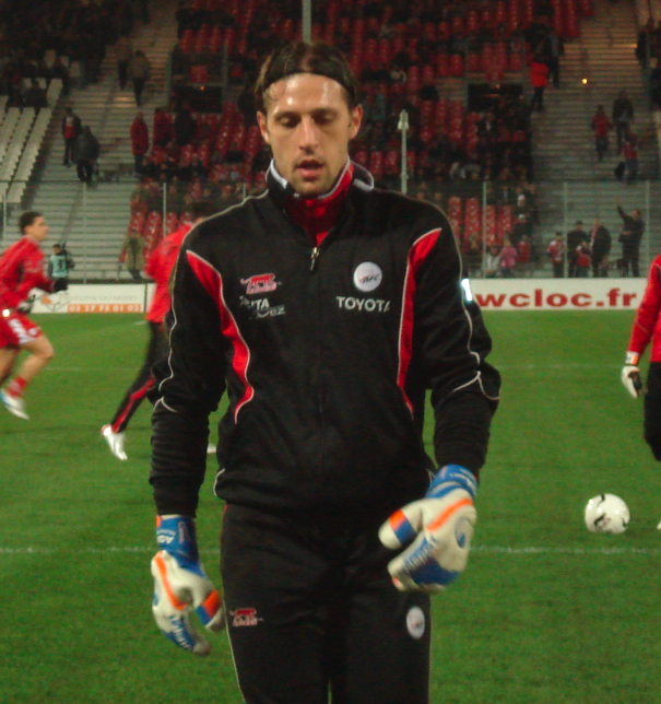 Penneteau during Valenciennes/Nice